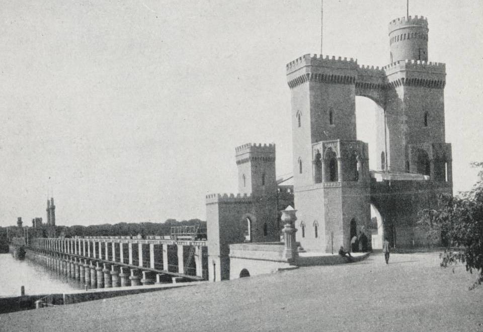 View of a water-flow control station across the Nile. The original Delta Barrage